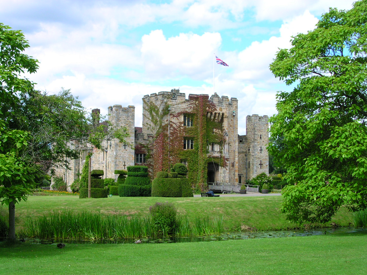 Hever Castle, Kent, England.